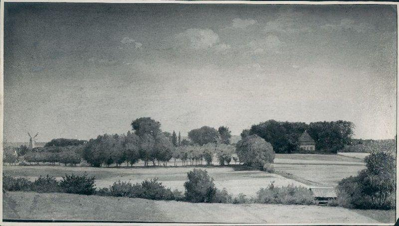 View towards Rolighed from Gammel Kongevej. The windmill located in the far left side of the picture is Ølands Mølle at Nørrebro Tunddel